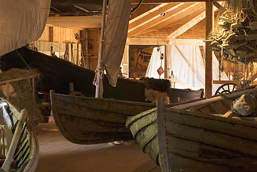 Interior, Maritime Museum of Holmön